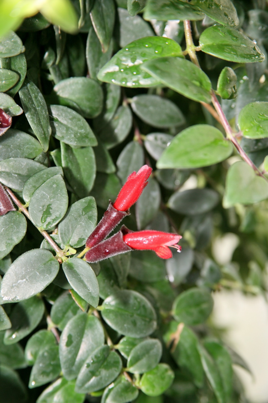 Lipstick Plant (Æschynanthus lobbianus)